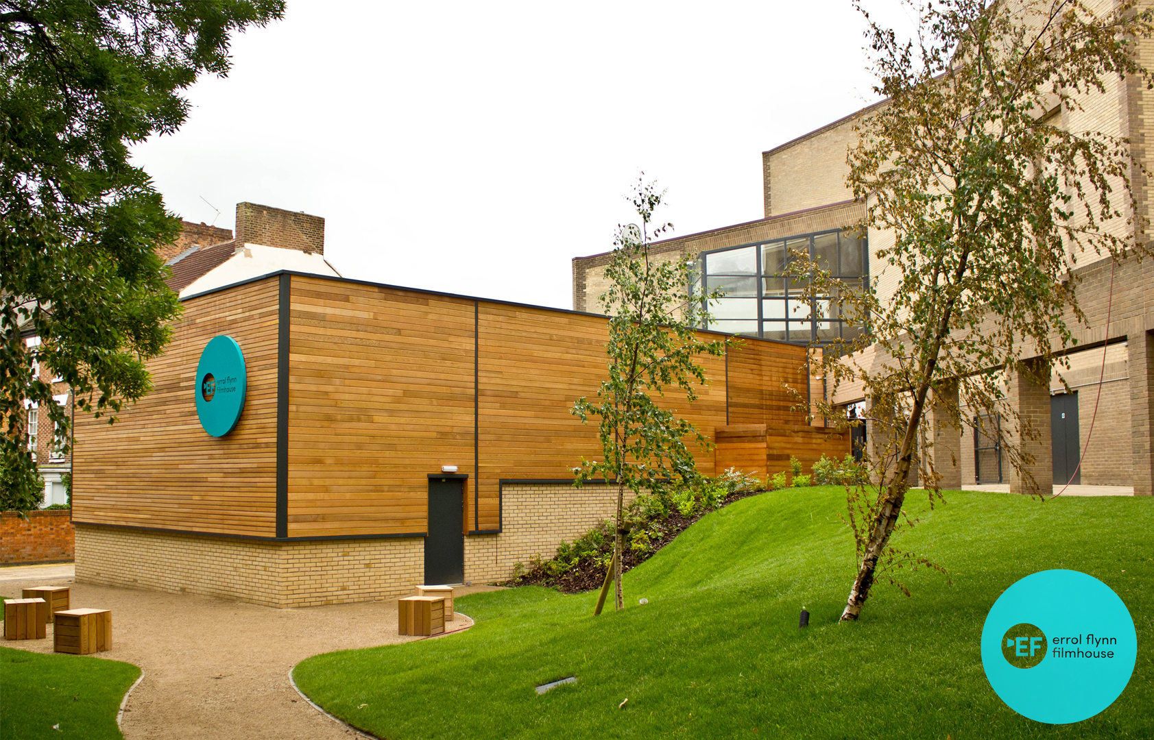 Errol Flynn Filmhouse.